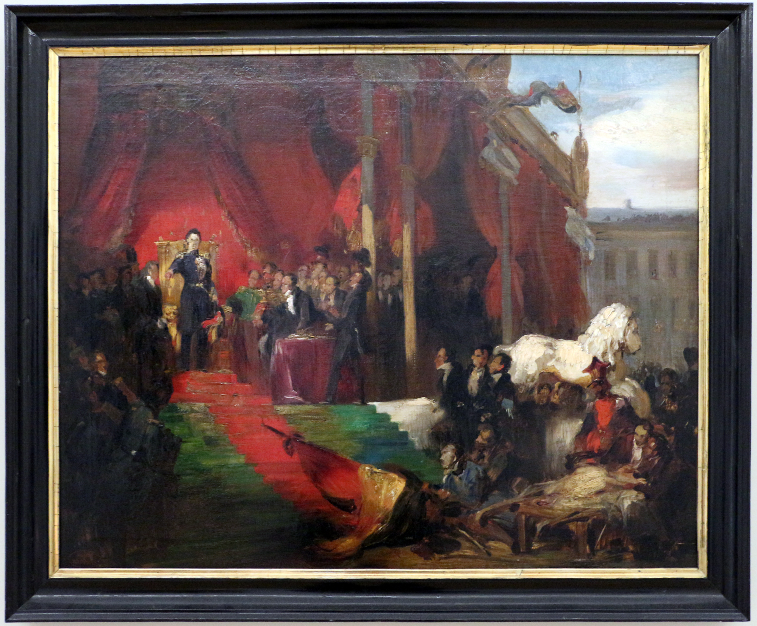 paintings in the Royal Museums of Fine Arts of Belgium